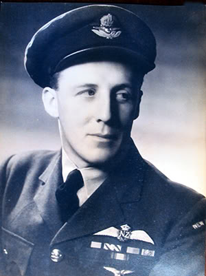 Portrait of RNZAF Wing Commander Thomas Welch Horton who served with No. 105 Squadron RAF during World War II. Portrait taken during an investiture ceremony in 1945 at the Court at Saint James's. Image provided courtesy of W/C Horton and Dave Homewood of Wings Over New Zealand